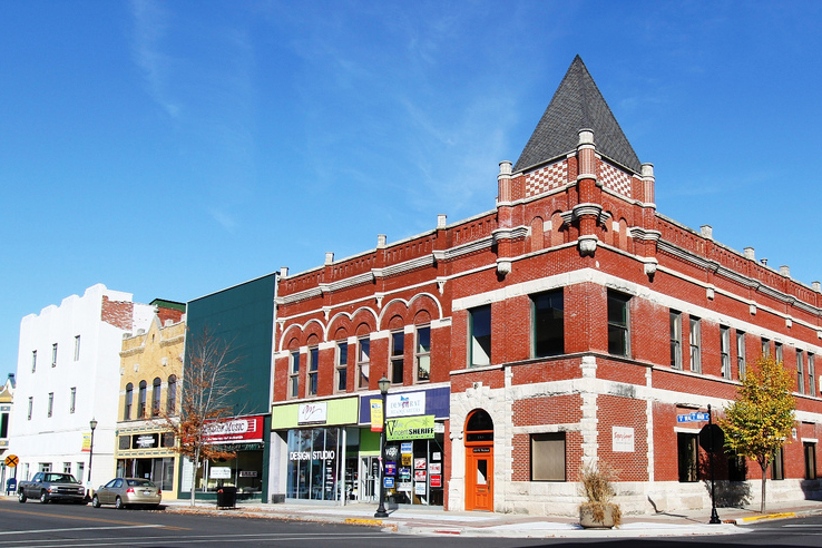 The corner of Walnut and Main St in downtown Kokomo